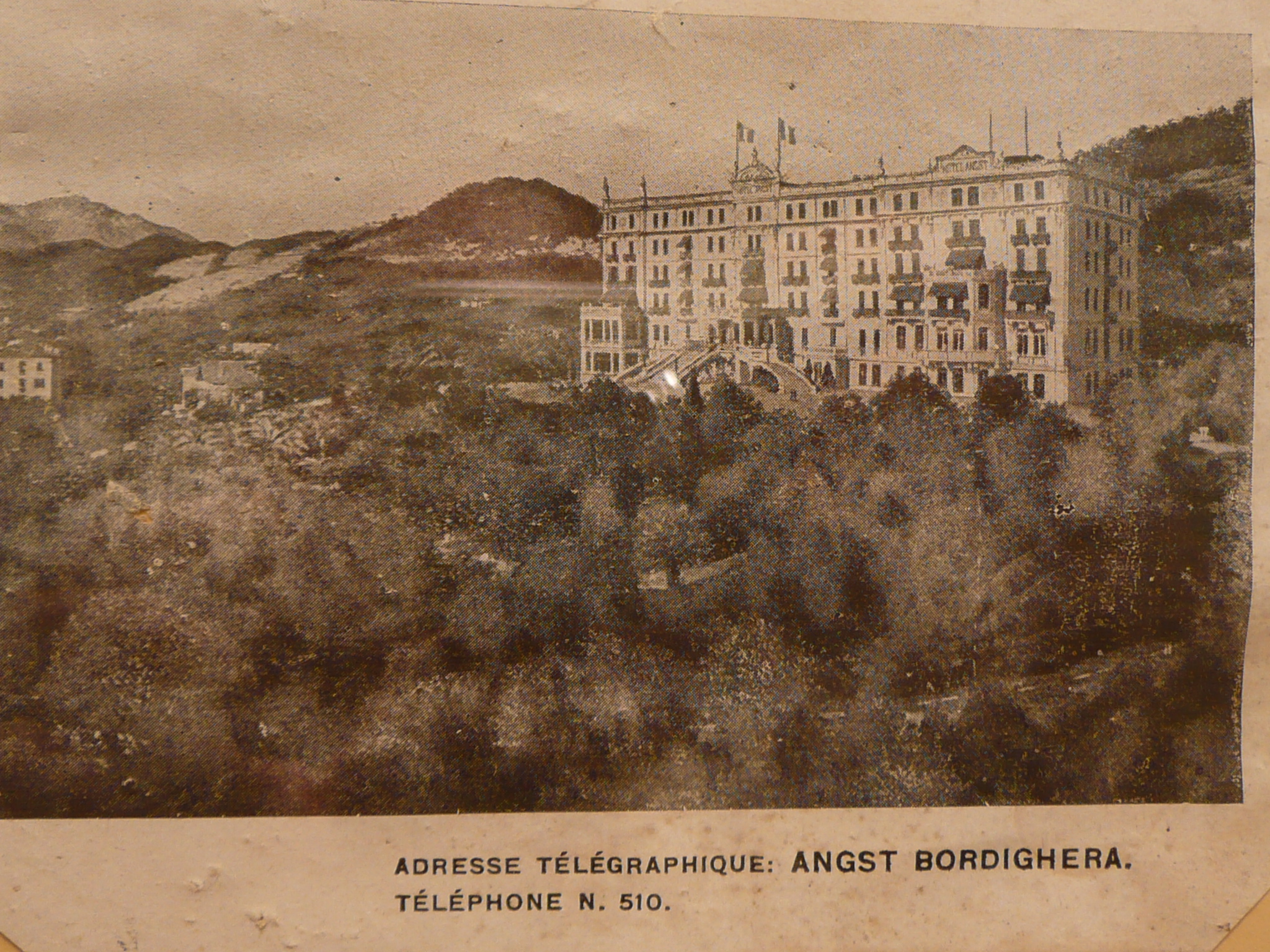 Postcard Hotel Angst 1900s